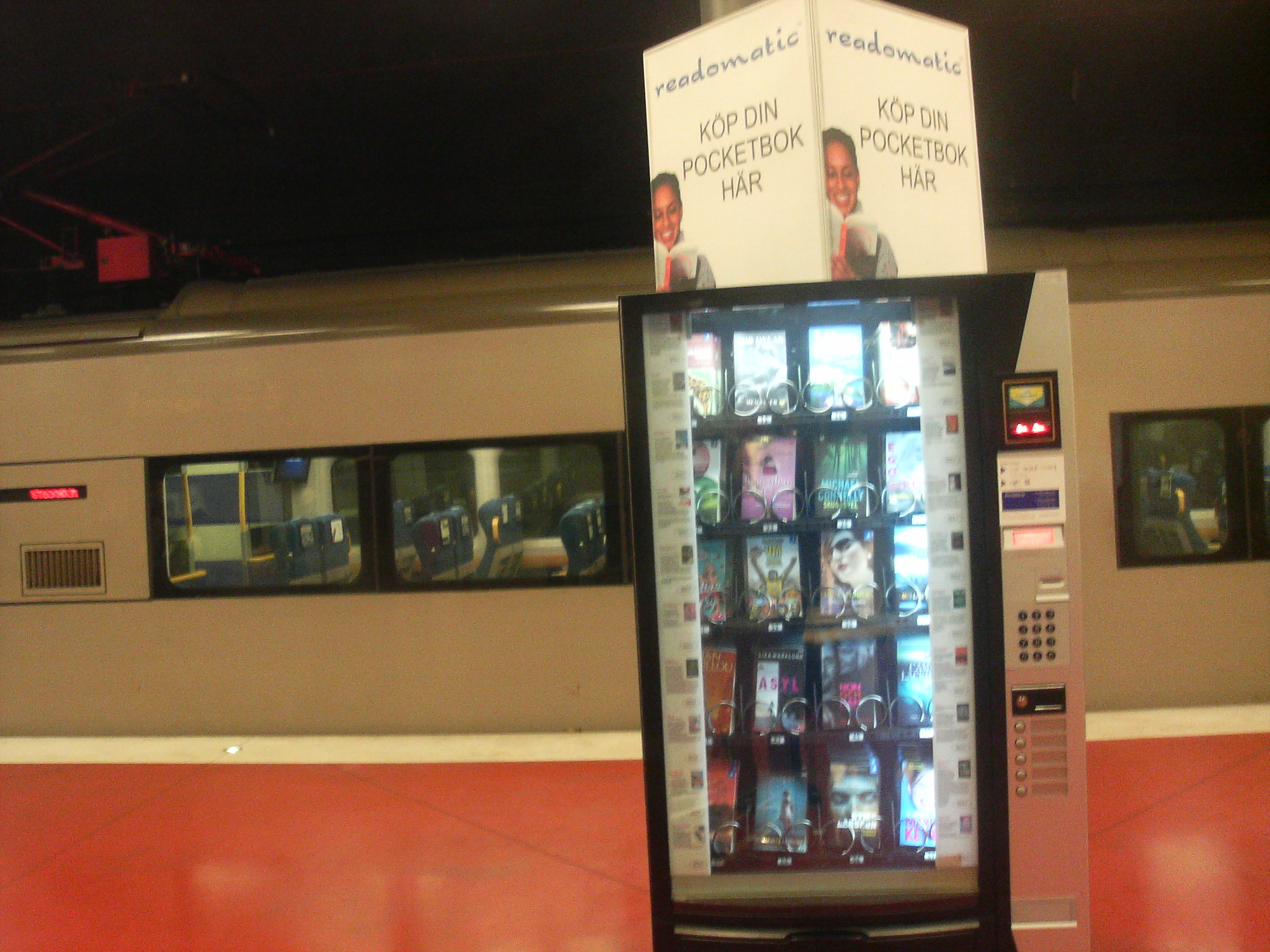 Taken at 6:35 PM on September 21, 2006; cameraphone upload by ShoZu